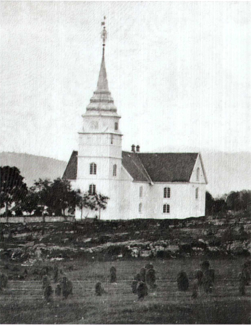 Picture of Jesu Kirke i Østre Porsgrunn